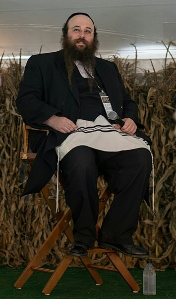 Alexander Rapaport at Roots conference hosted by the Chef's Garden.